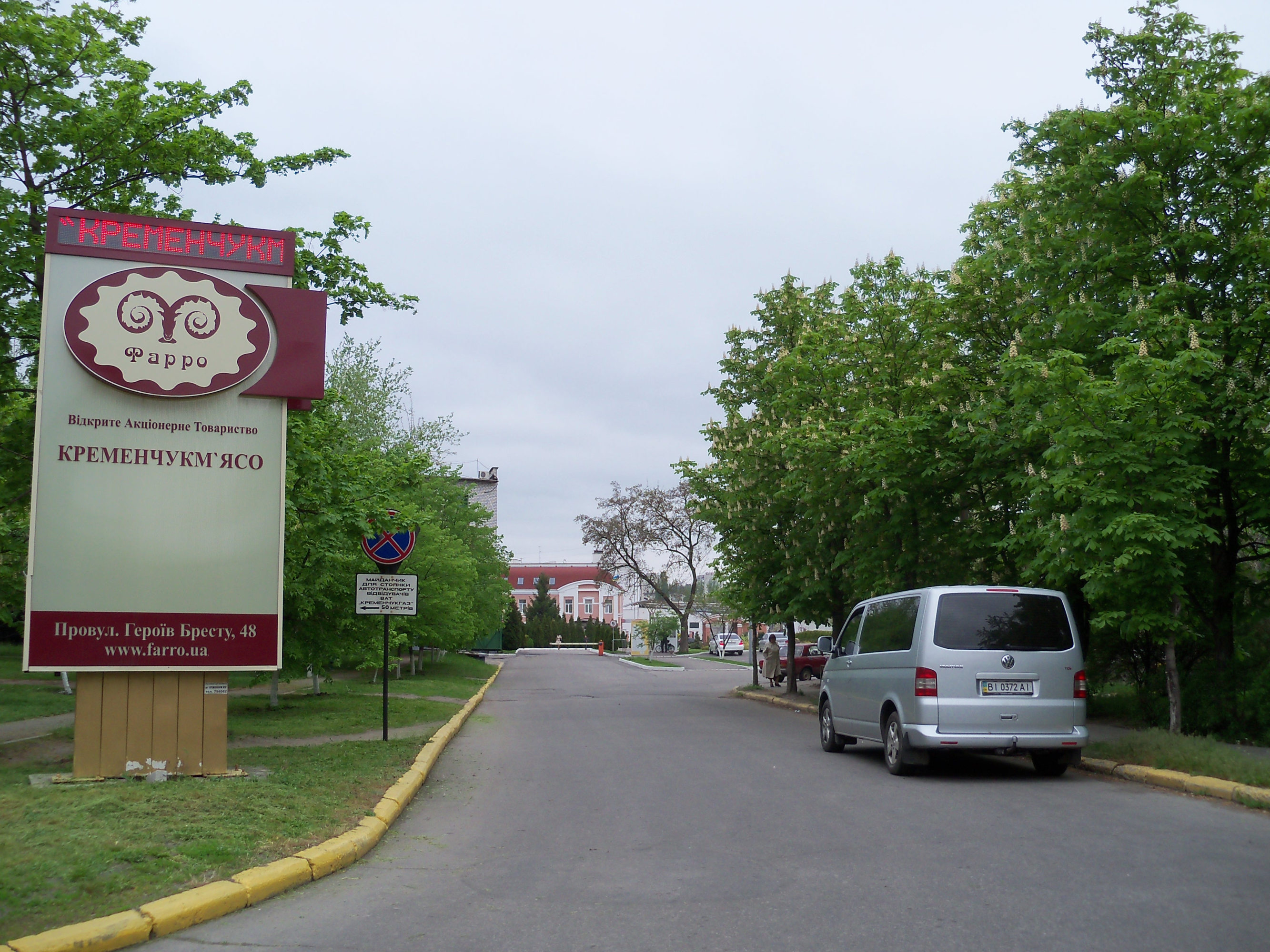 Enter to the Kremenchuk meat plant